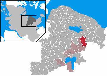 This map shows the area of the Gemeinde (municipality) Rantzau in the Kreis (district) Plön, Schleswig-Holstein, Germany.